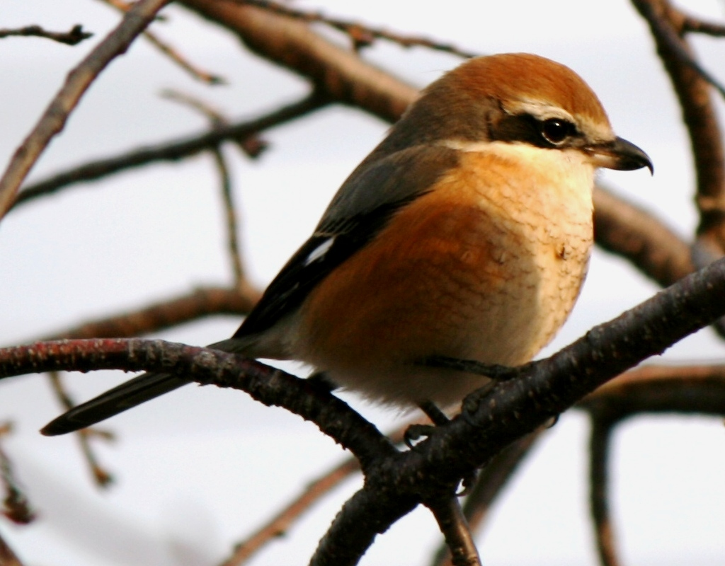 Lanius bucephalus (Bull-headed Shrike) male, in Japan